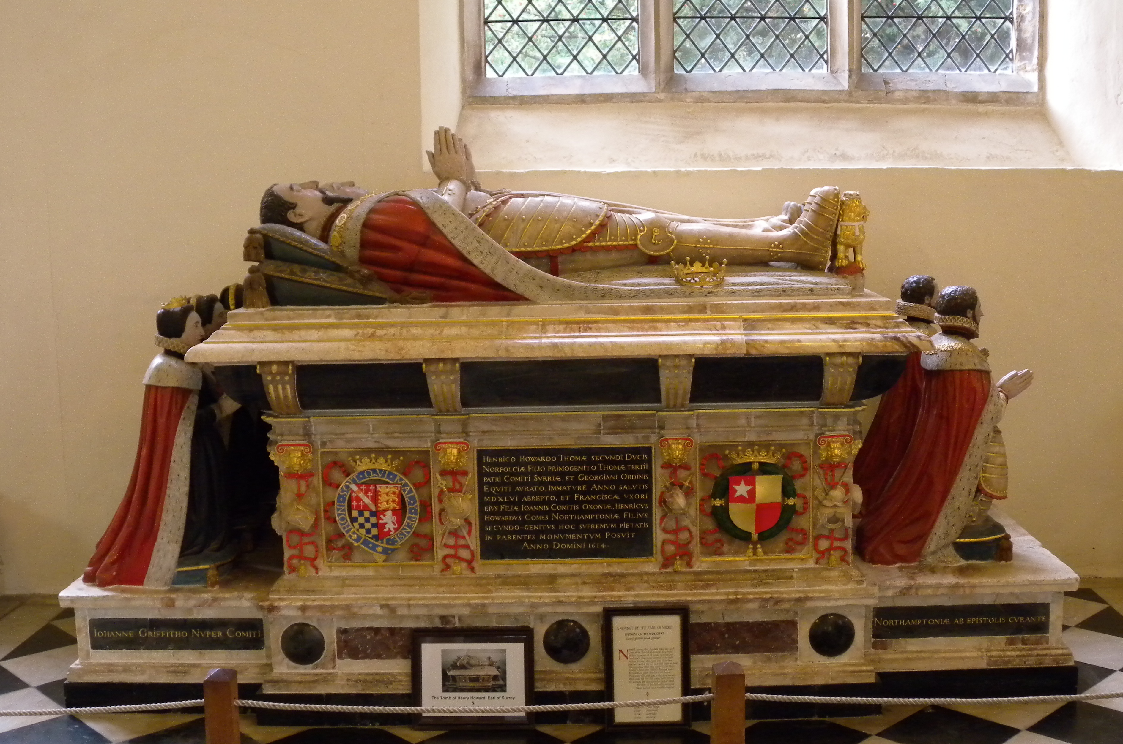 Parish church of St Michael the Archangel, Framlingham, Suffolk: tomb of Henry Howard, Earl of Surrey (died 1547) and his wife Frances de Vere